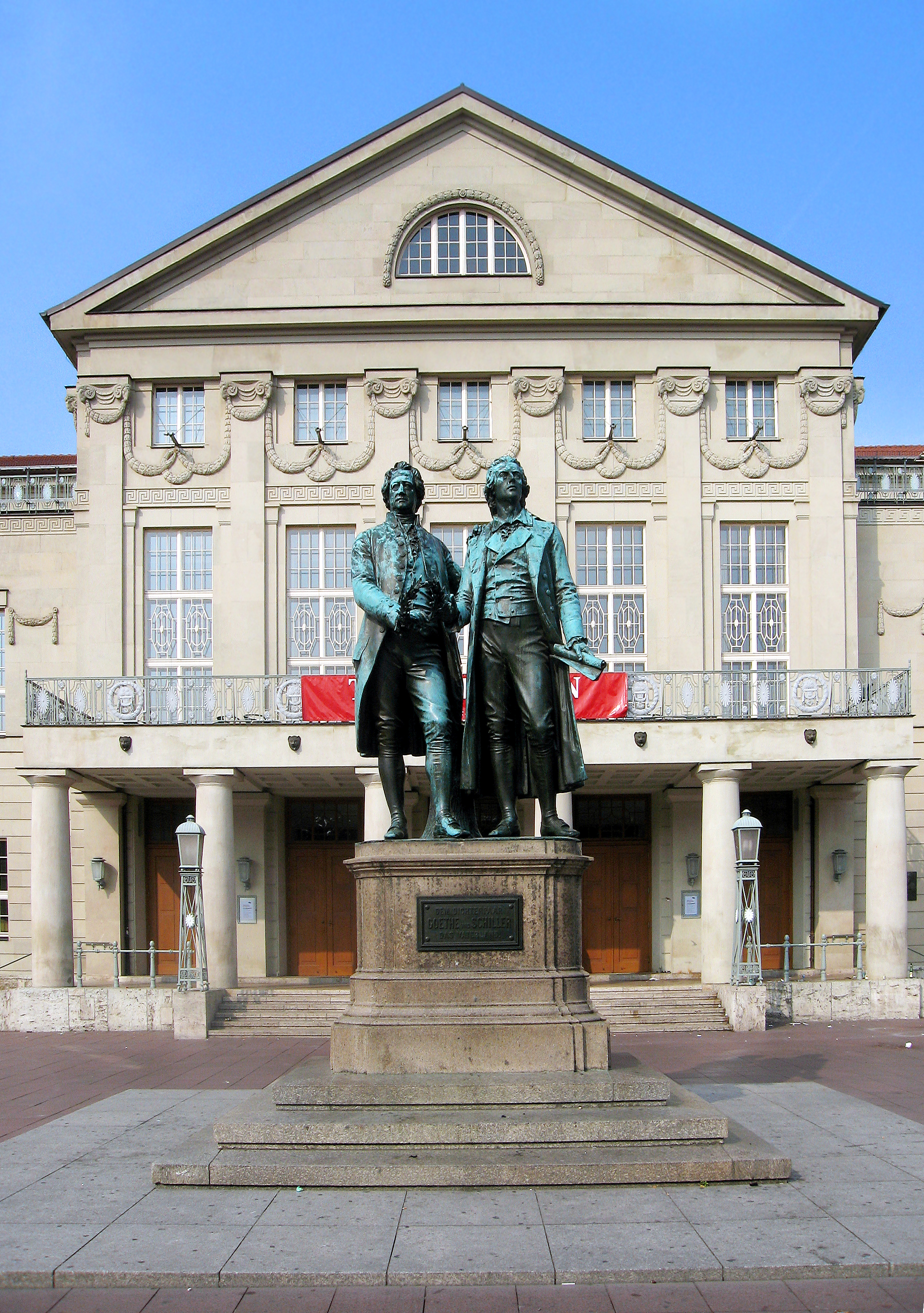 The Goethe and Schiller statue in Weimar, created by Ernst Rietschel (1804–61), unveiled in 1857[1]